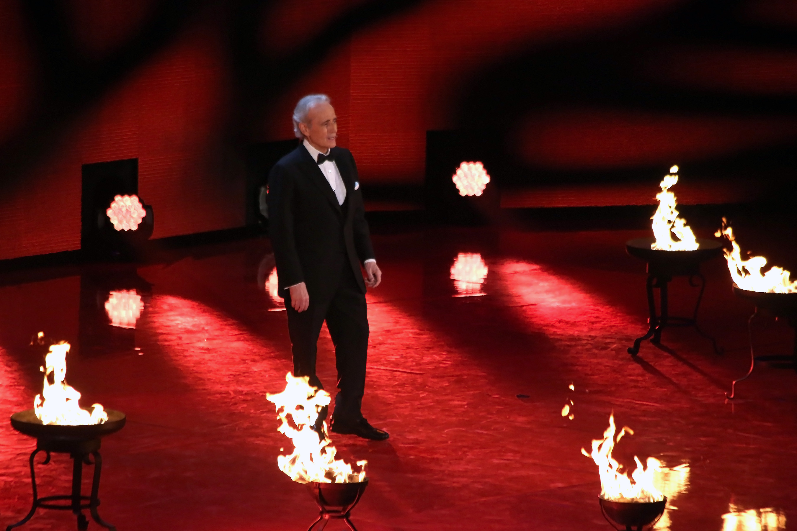 José Carreras at the award show for the Austrian Sportspersonalities of the Year 2013 at Austria Center Vienna (Vienna, Austria).